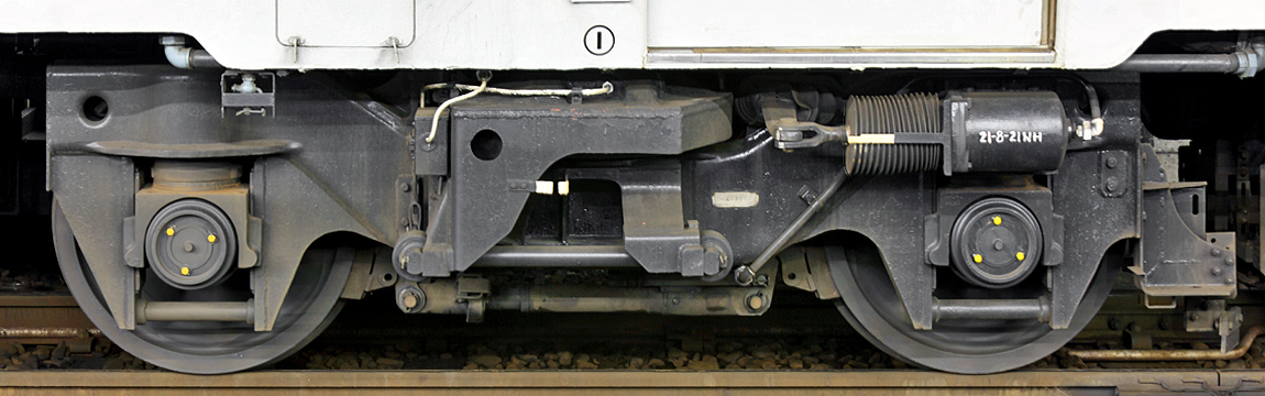 Type DT44 bogie truck of JNR 40 series DMU (Kiha 40 833).